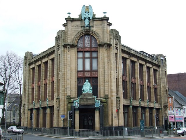 The Russell Institute. Children's clinic donated to Paisley in 1927 by Miss Agnes Russell as a memorial to her brothers, Robert and Thomas. See also 395449 & 395455.